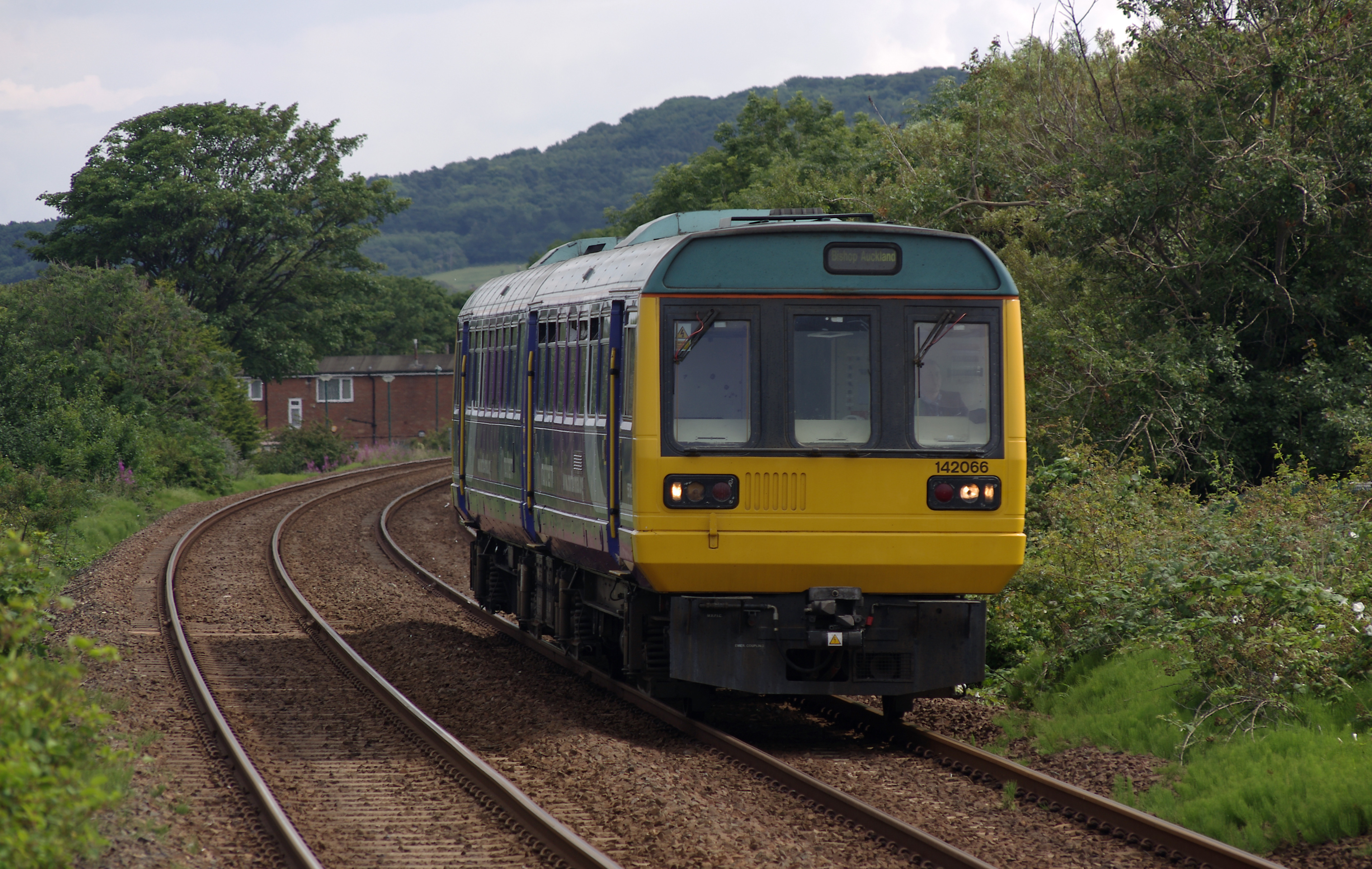 Northern Rail Pacer DMU 142066 approaches Redcar East railway station with a service to Bishop Auckland.